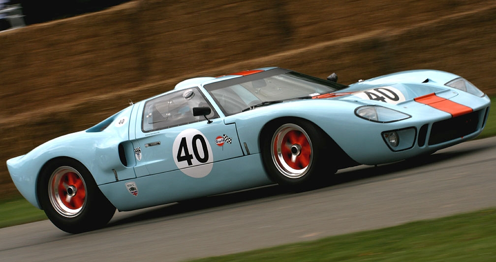 Ford GT40